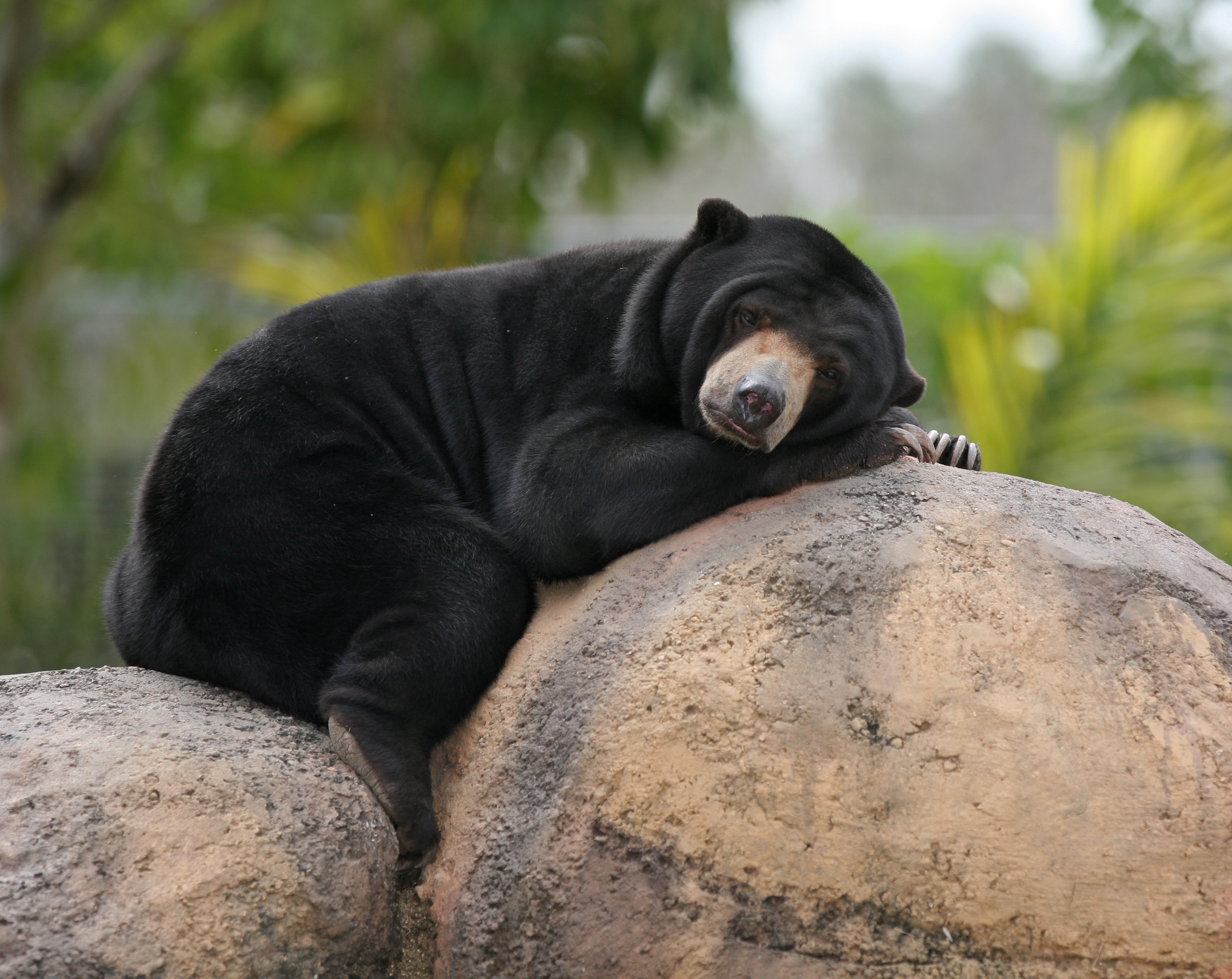 Malayan Sun Bear